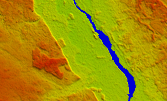 Land cover (Kabaty forest in Warsaw) included in SRTM digital elevation model